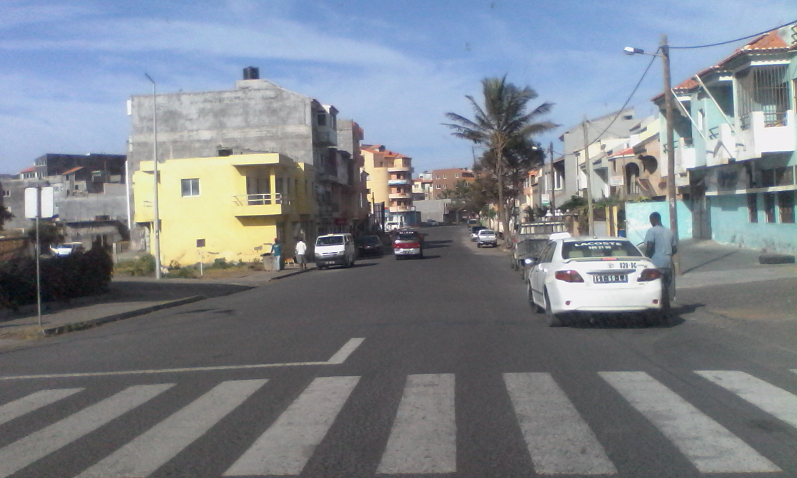 Entrance to the city from Praia